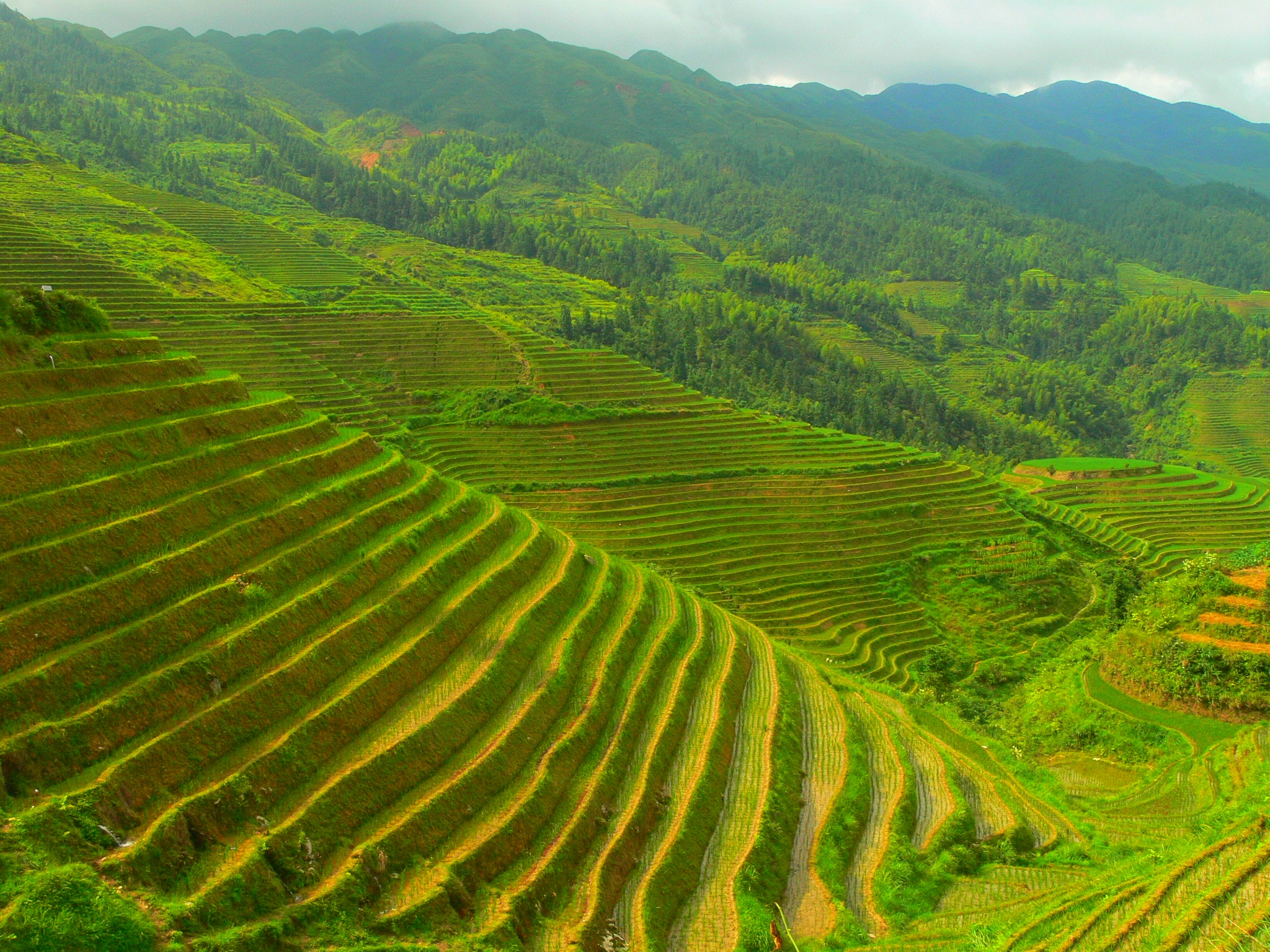 A Longji terrace in Longsheng county, Guilin, China.